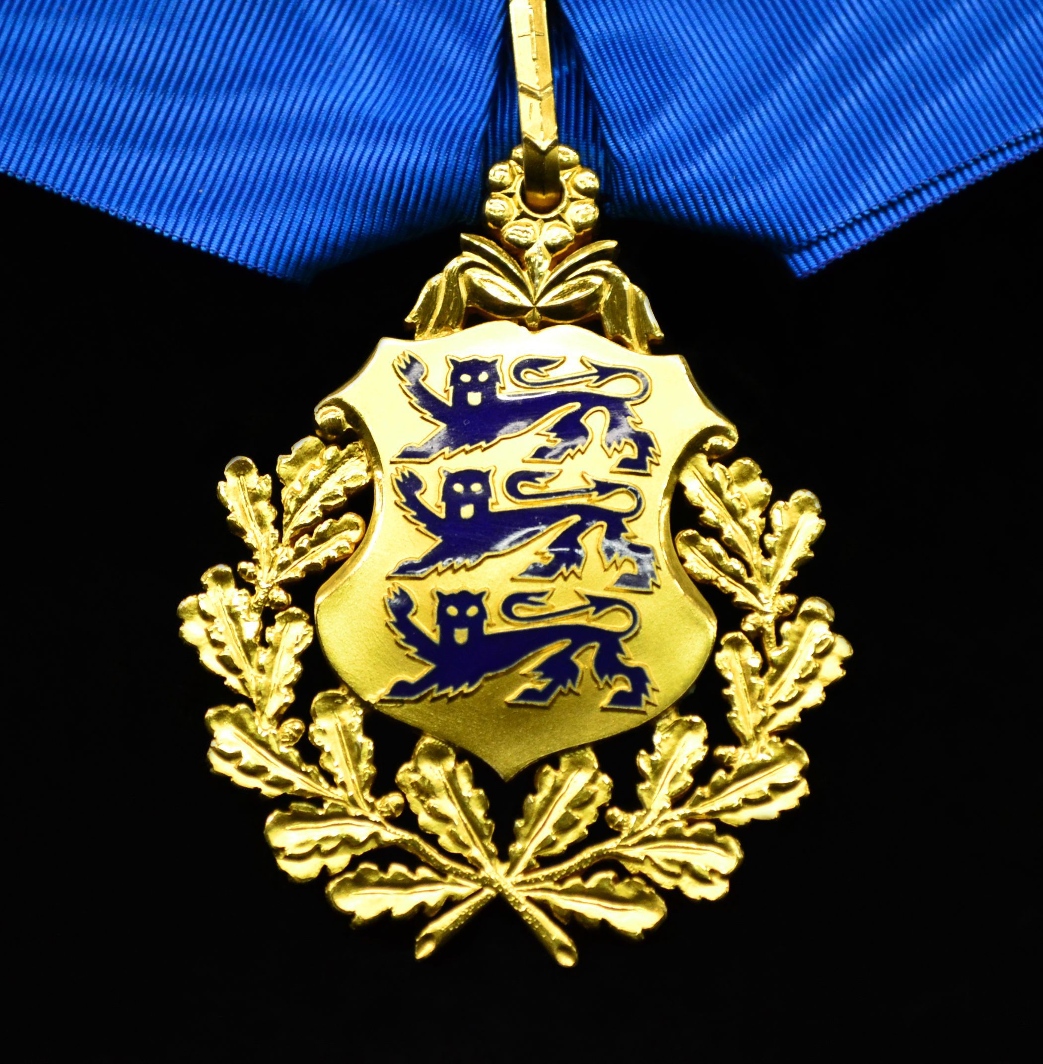 Estonia. Order of the National Coat of Arms 2nd class, badge and ribbon. The exhibition of the Estonian State Decorations at the National Library of Estonia in Tallinn.